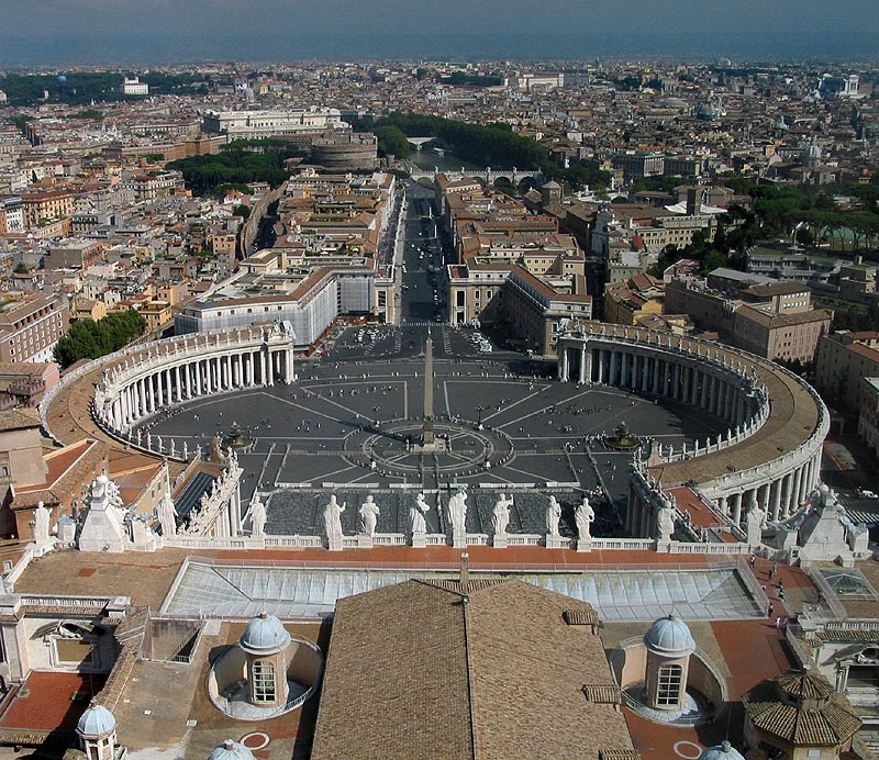 Rome, St. Peters Square view to East